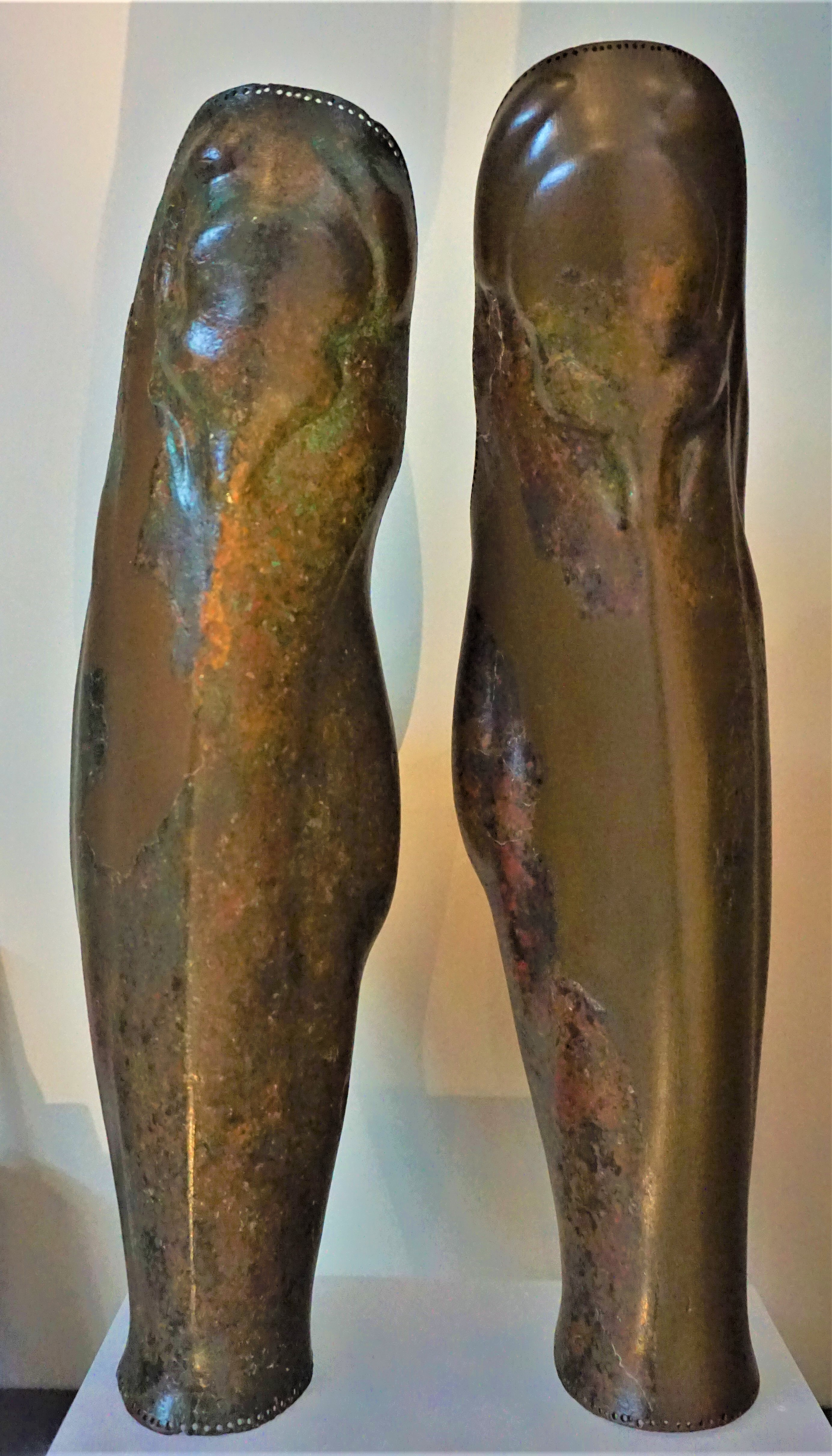 Ancient Greek Greaves - Archaeological Museum of Thessaloniki by Joy of Museums, for details